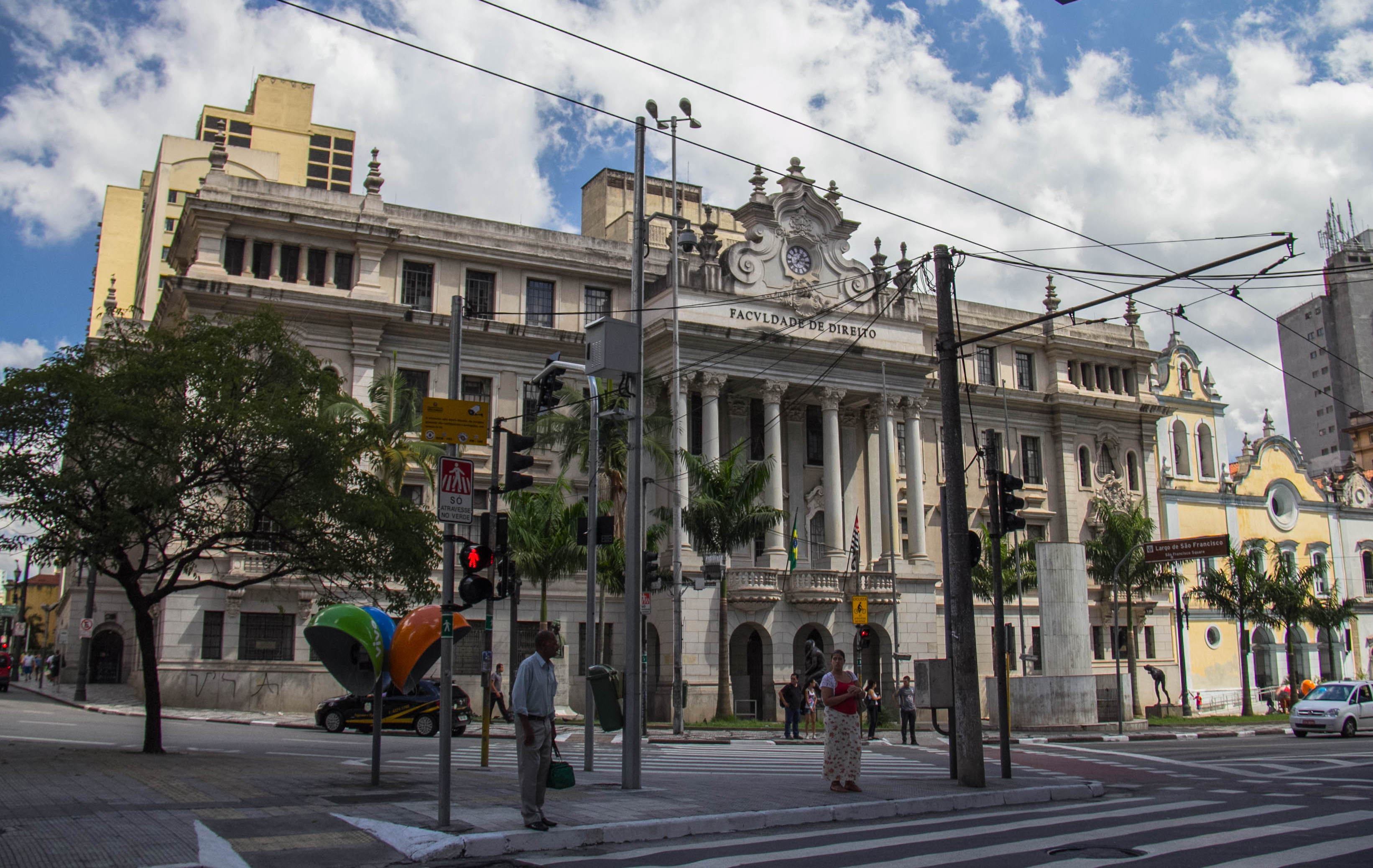 escola de direito